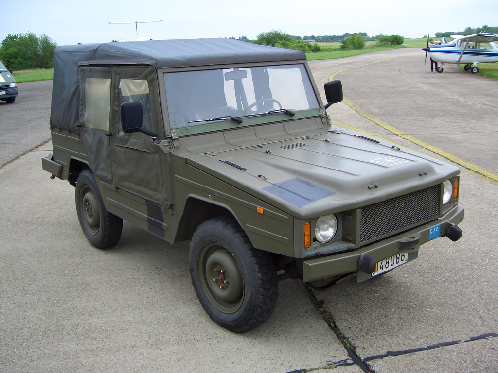 A Belgian Volkswagen Iltis in 2007.